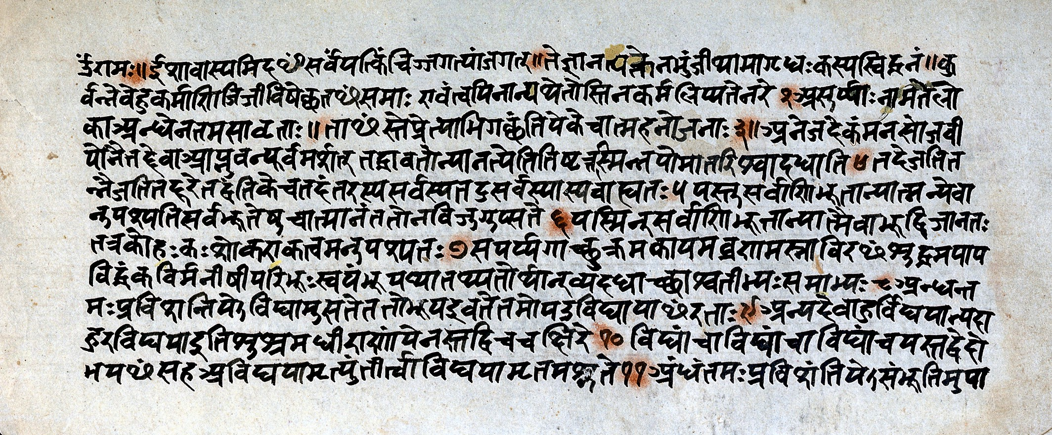 MS Indic 37, Isa upanisad. Folio 1r. Wellcome Images Keywords: isa upanisad; ms indic 37